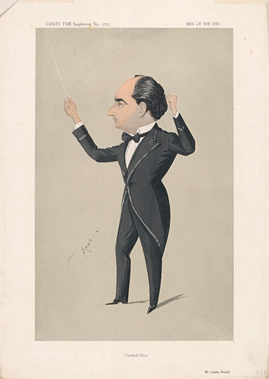 Caricature of English conductor Landon Ronald. Caption read "Guildhall Music".